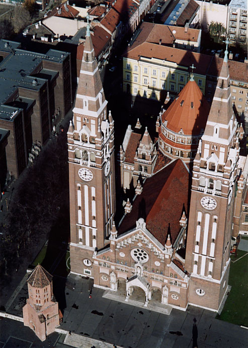 Szeged, Dome, Hungary, aerial photography